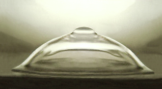 This image shows the Freediver Contactlens Sea-U. It was not taken under water, but in air. The optical part would not be visible under water since it is too similar to water. In this lateral view the optical part looks bigger because the artificial lighting dries out the peripheral part of the lens and makes it shrink. However the lens is well recognizable.